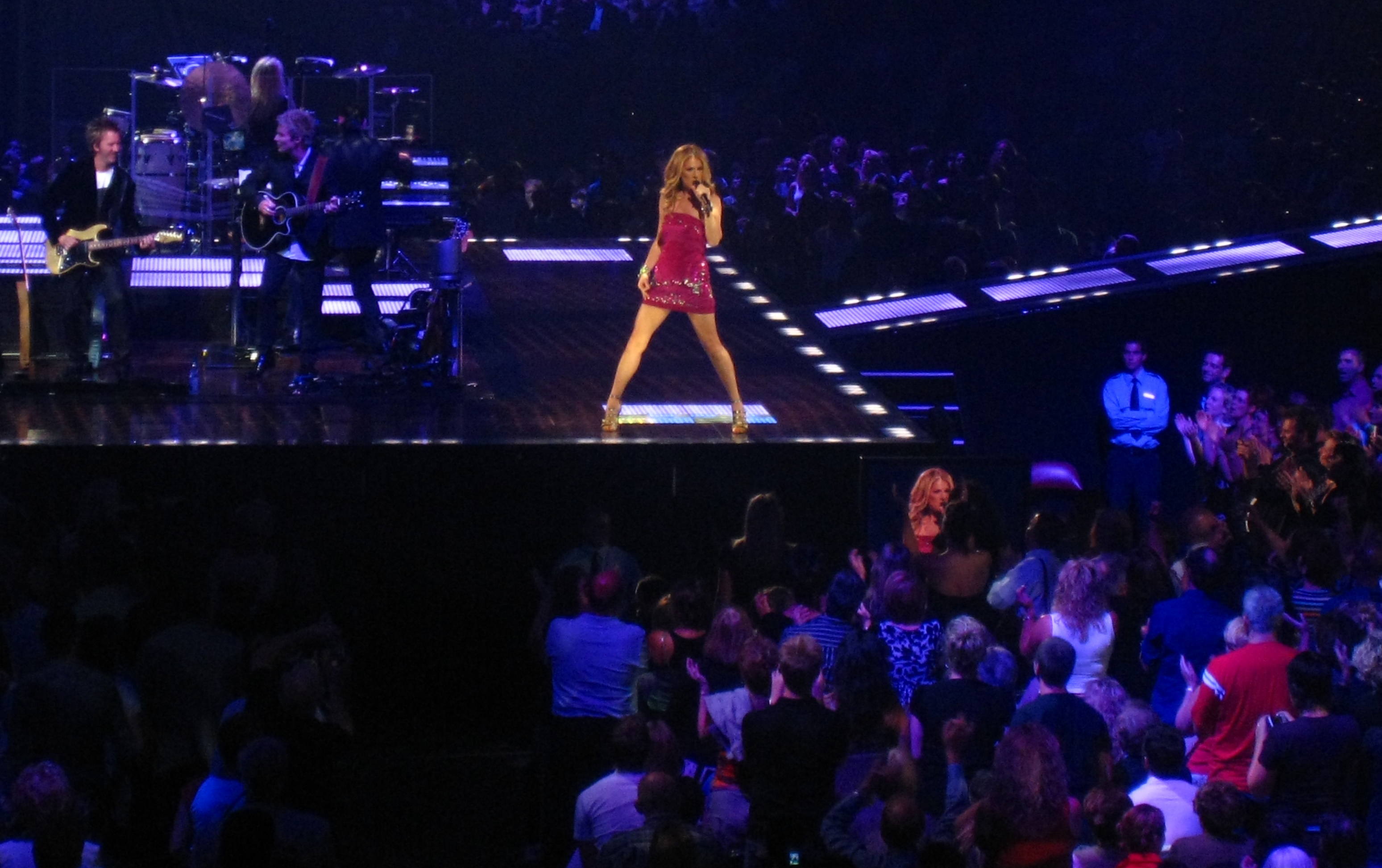 Celine Dion performing "Taking Chances" at Celine Dion 'Taking Chances Tour' Concert @ Bell Centre, Montreal, Canada in August, 2008.